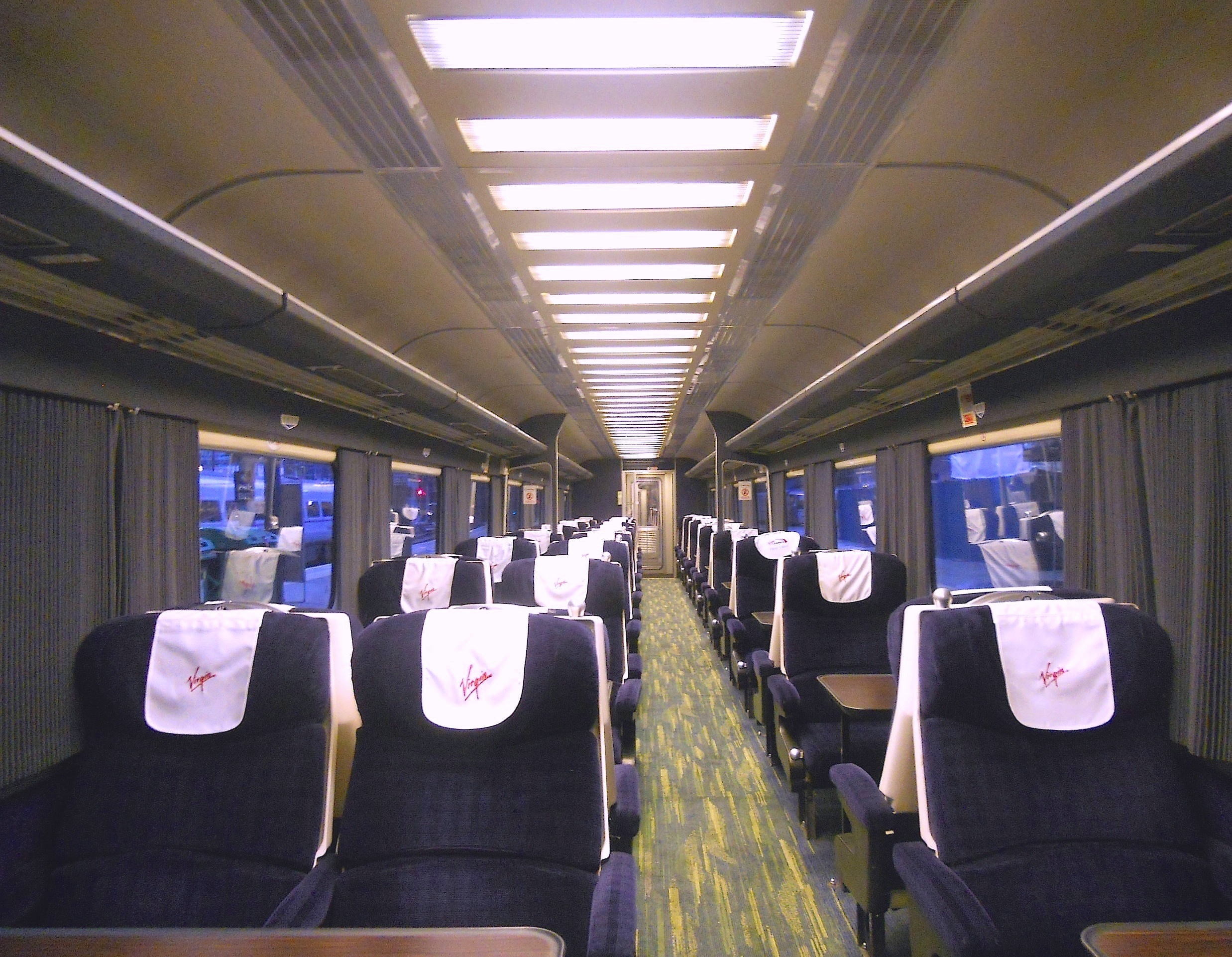 The interior of Virgin Trains refurbished Mark 3A Open First